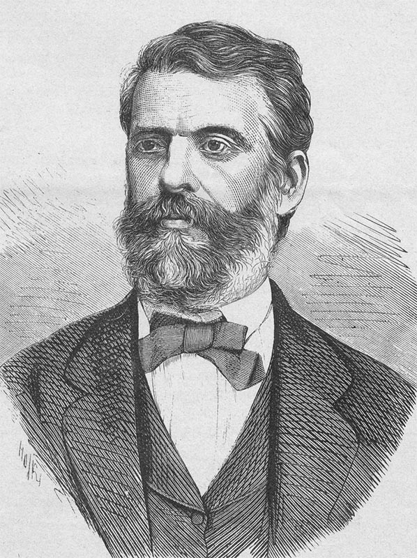 Serbian doctor